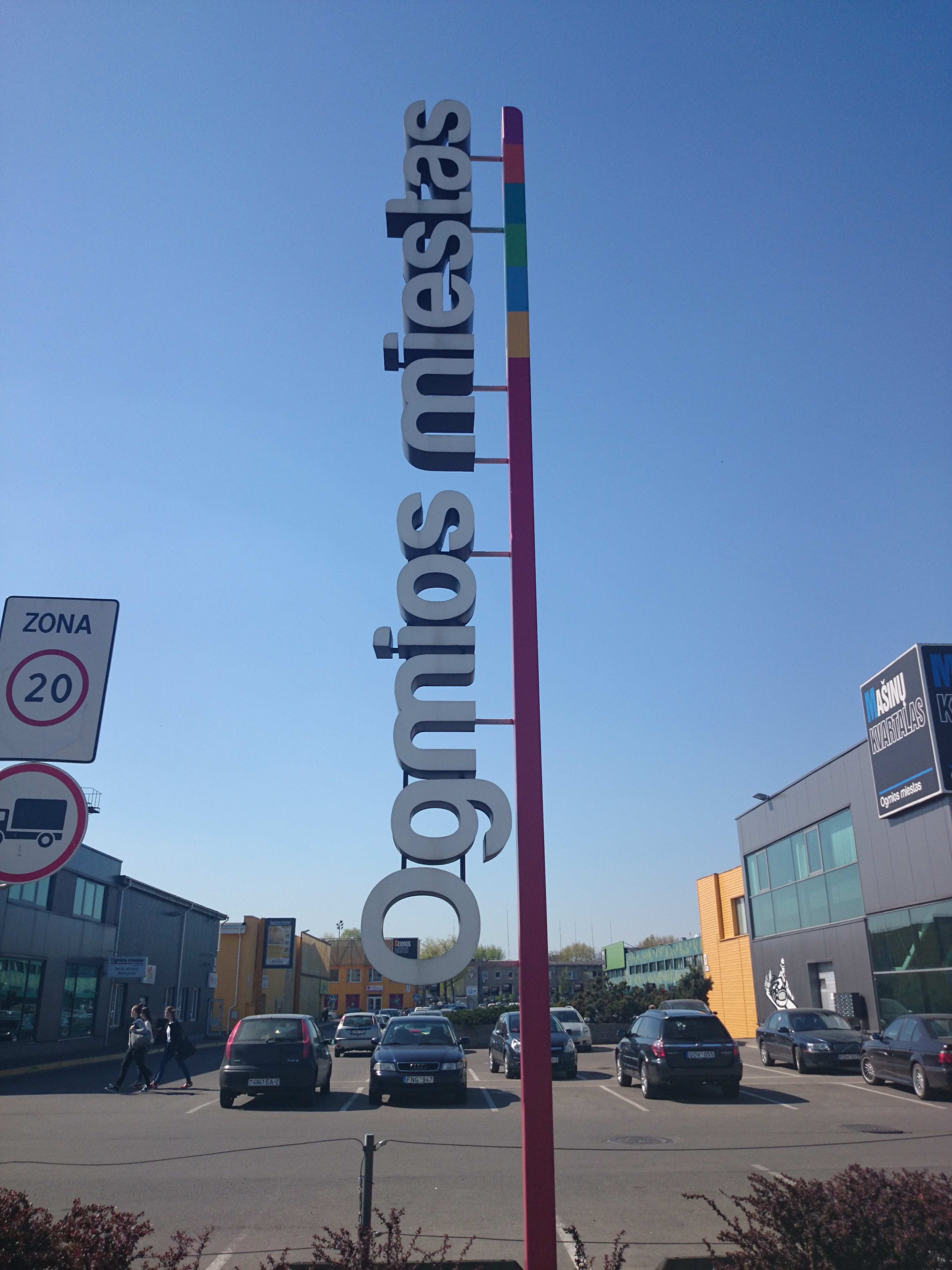 Ogmios miestas